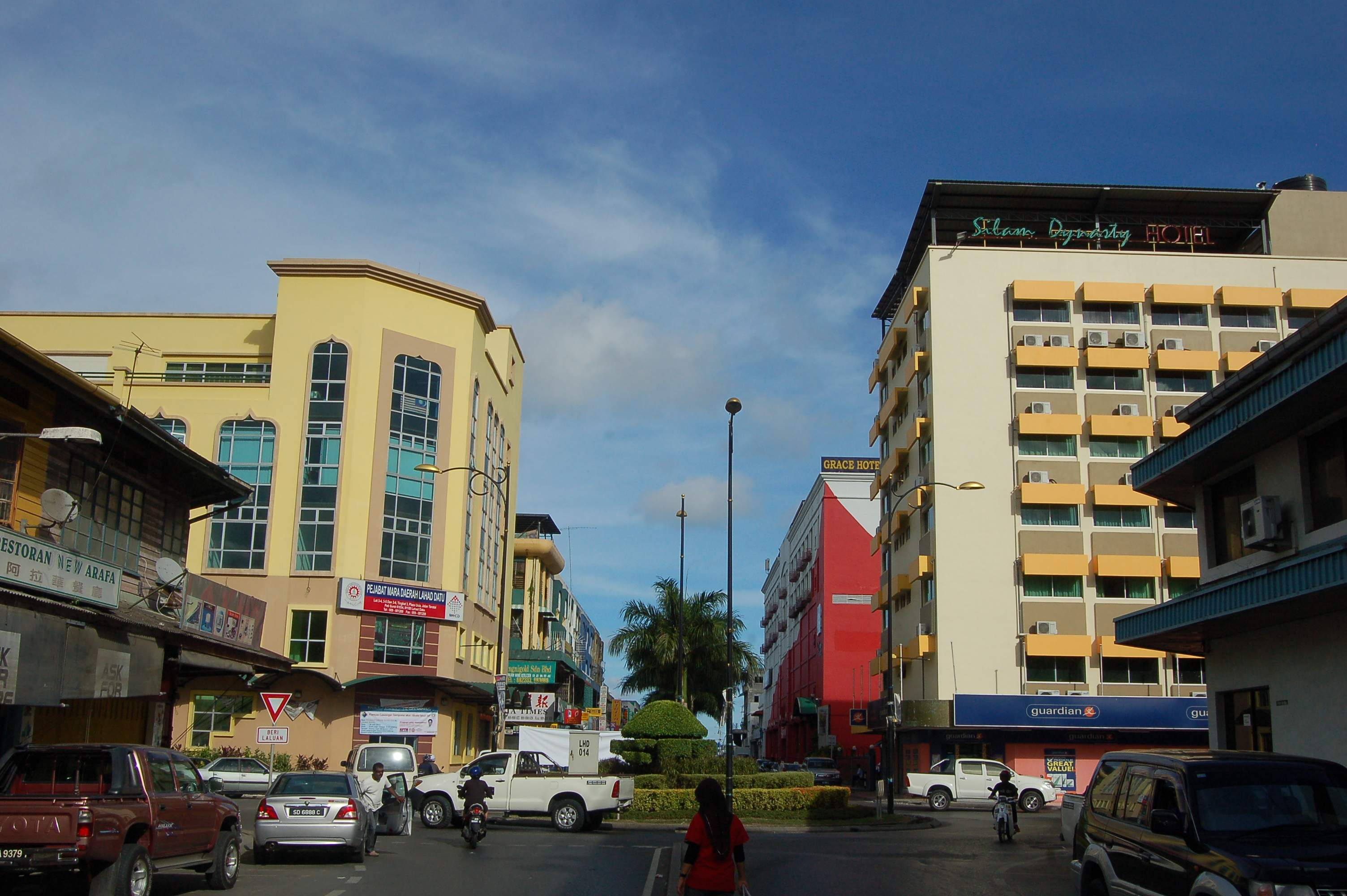 Lahad Datu town